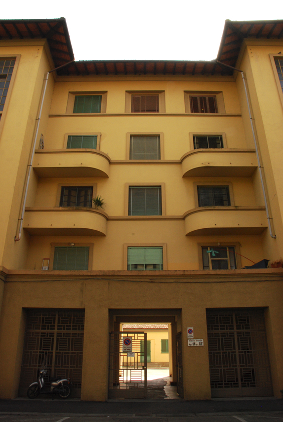 Case per indigenti (Houses for the needy), Florence, Italy. North side. Main Entrance.